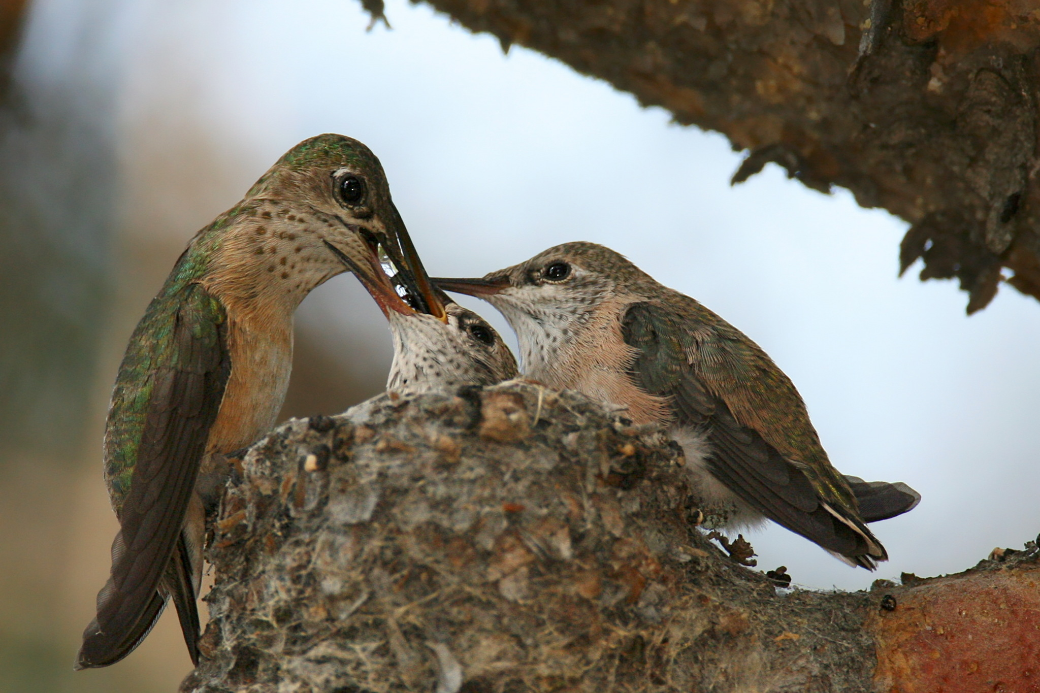 Calliope Hummingbird / Stellula calliope - female feeding two chicks